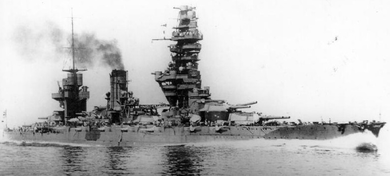 Imperial Japanese Navy battleship Fusō undergoing post-rennovation trials